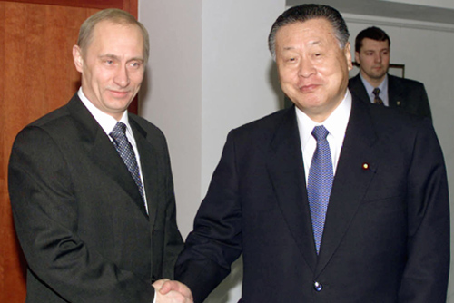 IRKUTSK. President Putin with Japanese Prime Minister Yoshiro Mori.